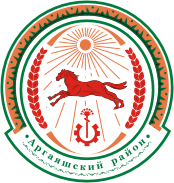 Argayash rayon (Chelyabinsk oblast), coat of arms (1999)